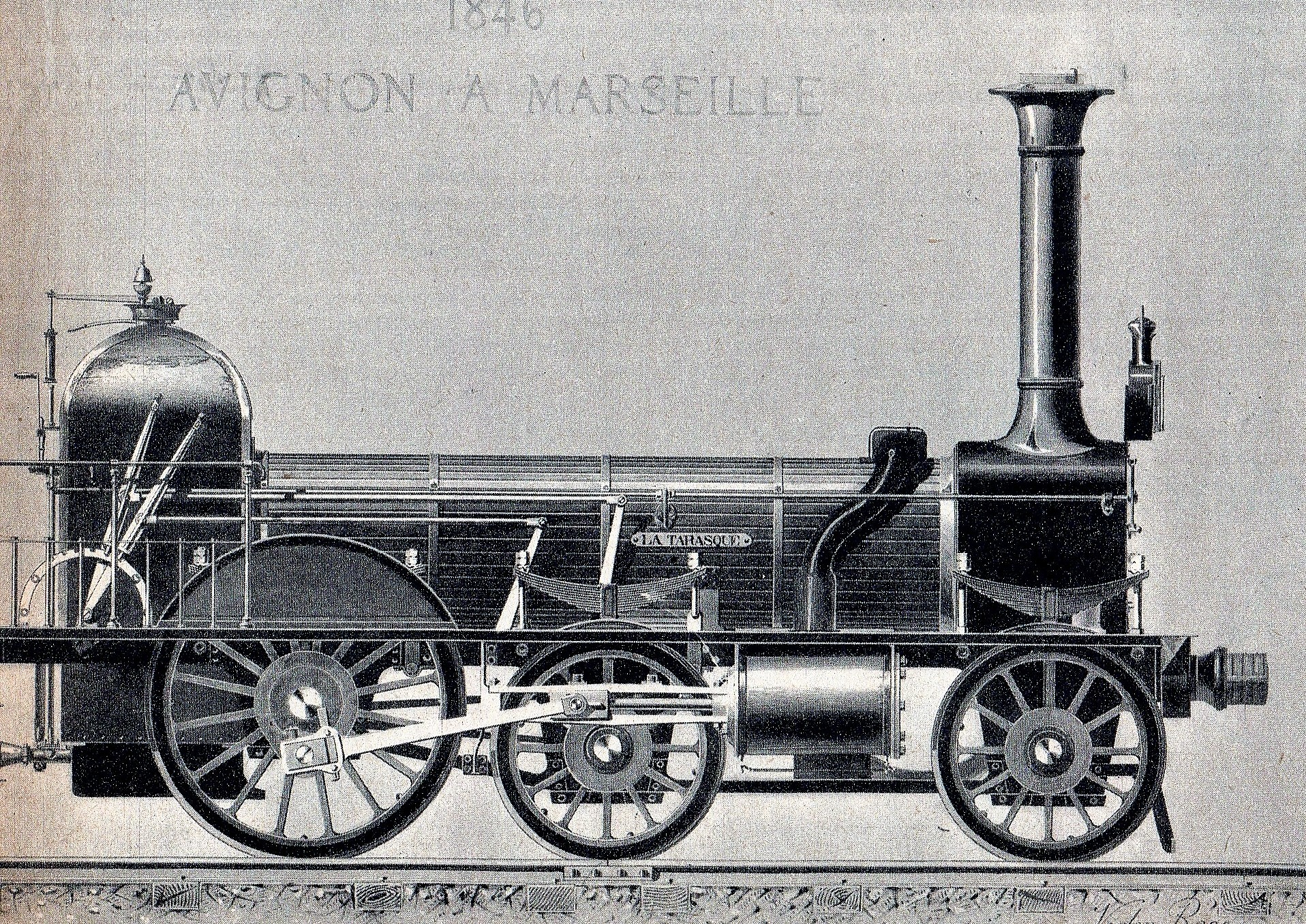 Locomotive La Tarasque of the Avignon à Marseille Railway, a long boiler steam locomotive built in 1846 by Robert Stephenson and Company and named after the Tarasque, a legendary dragon-like creature of southern France – Illustration from the journal La vie du Rail